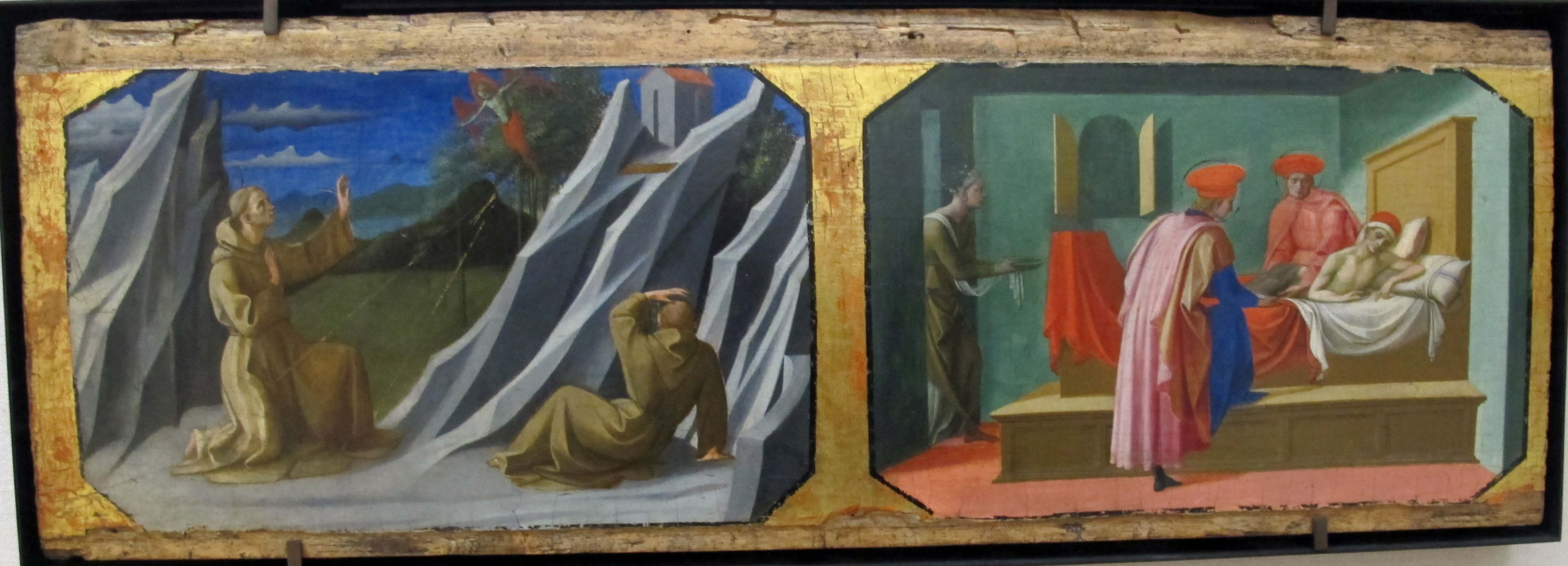 Saint Francis receives the Stigmata; Saints Cosmas and Damian heal Justinian